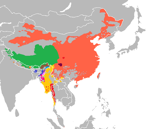 The extension of various branches of the Sino-Tibetan languages. Chinese is indicated with orange. The traditional paraphyletic "Tibeto-Burman" branch has been split up into its well-established components. Those are indicated as follows: Tibetan Burmese Karen Rung Tani Qiang Baric languages Bodo-Garo Konyak Kuki-Chin–Naga languages Naga Meithei Kukish